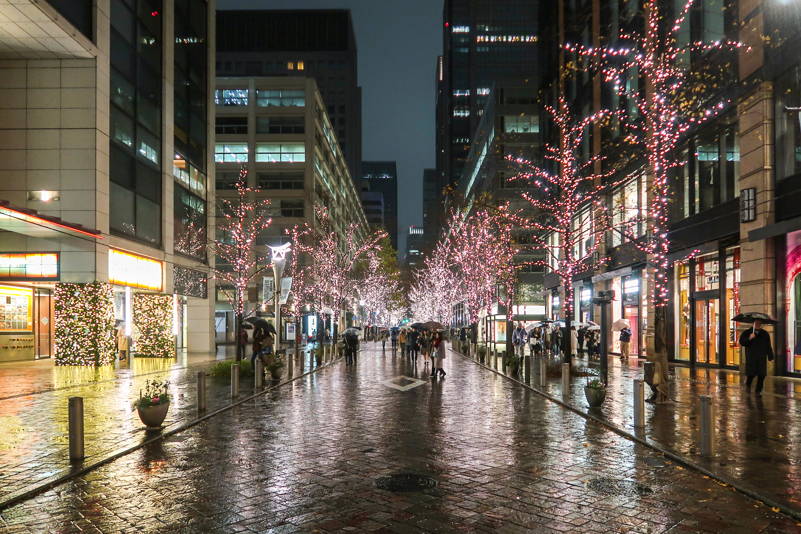 Marunouchi Nakadori Street at night